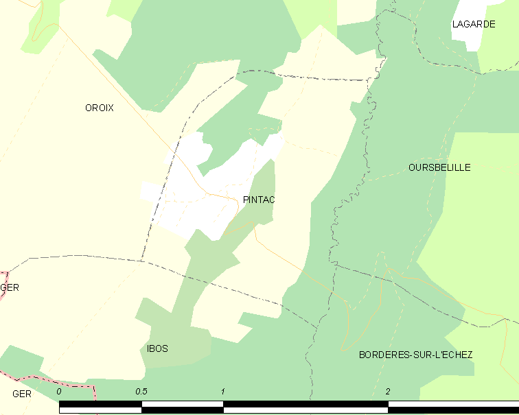 Map of French municipality